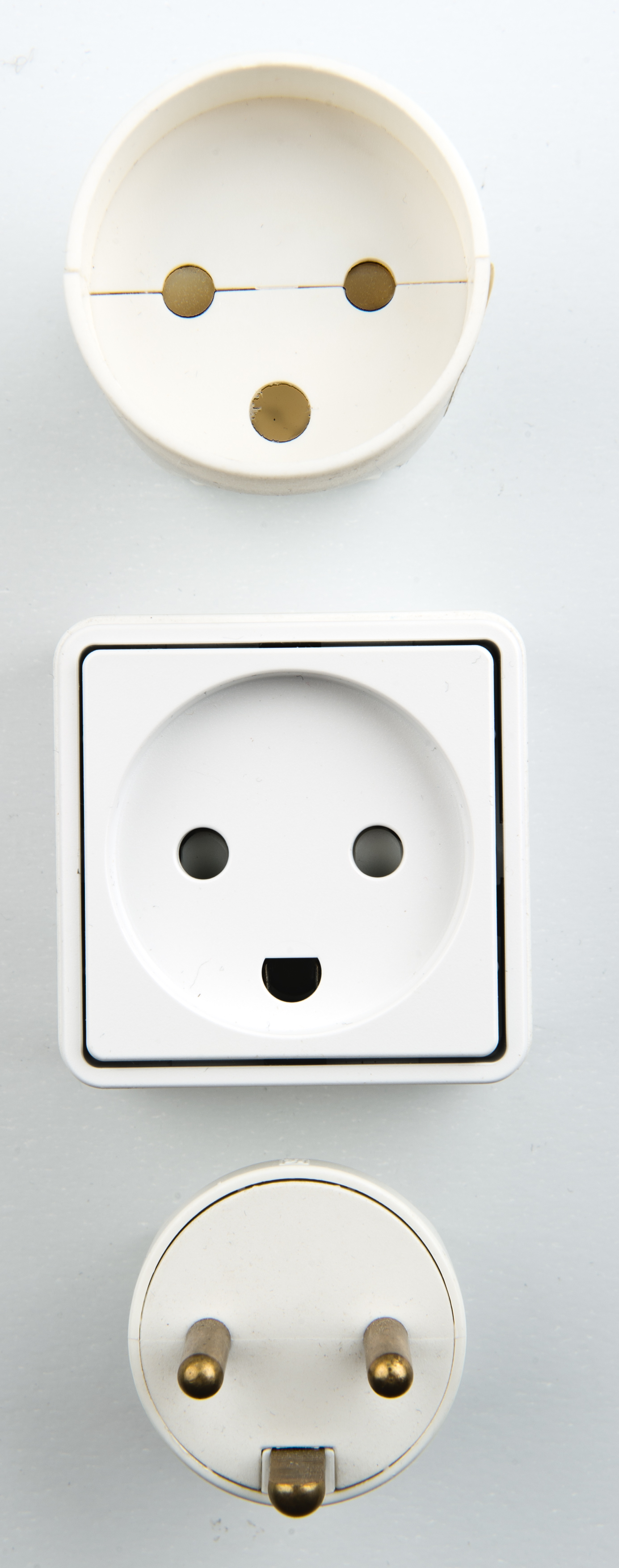 A photo of 3 different electrical connectors (Female extension cord plug, wall socket and a male extention cord plug).